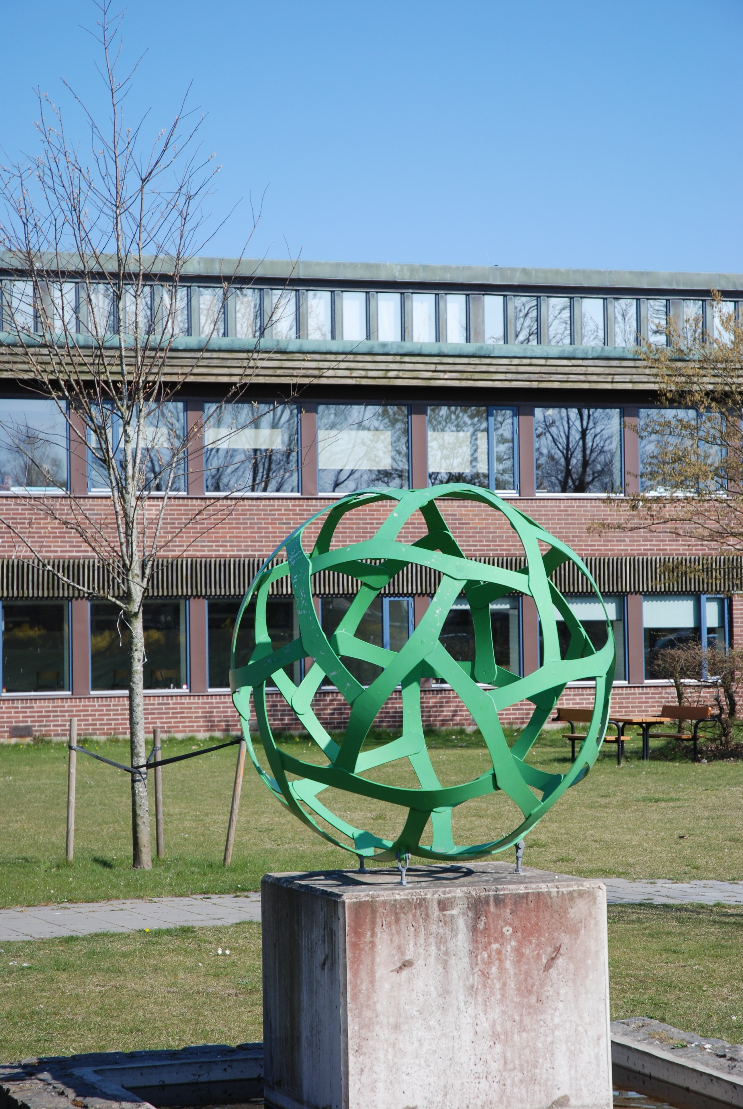 Lars Englund´s ´till exempel (e.g., (1997), steel, Höganäs, Sweden